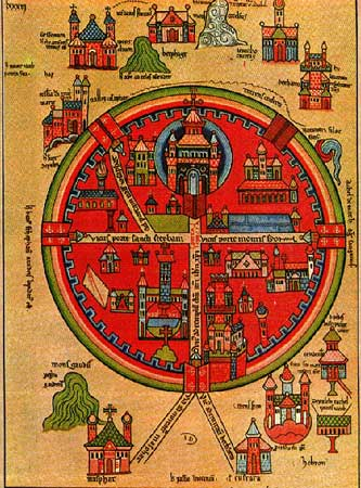 Jerusalem